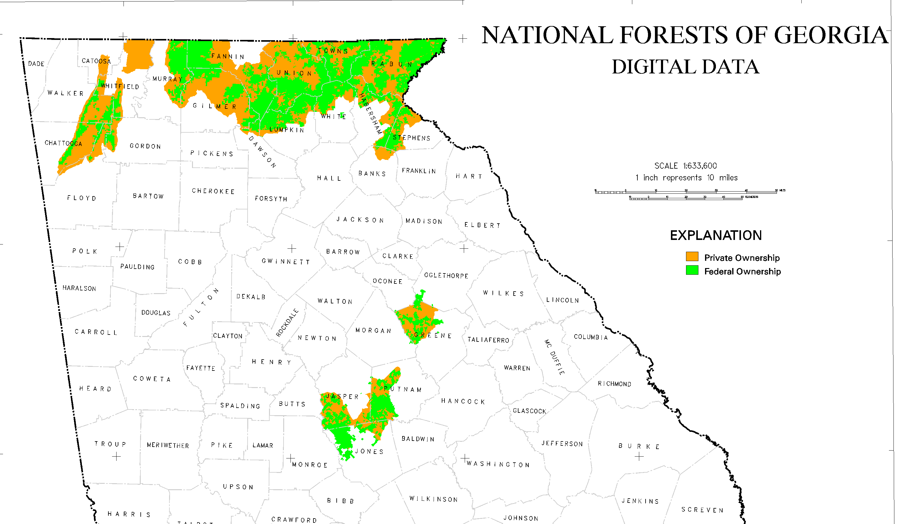 Map of National Forest land in Georgia. Source: USGS